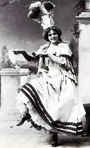 Photo of Emmie Owen as the Princess of Monte Carlo in the original production of The Grand Duke 1896